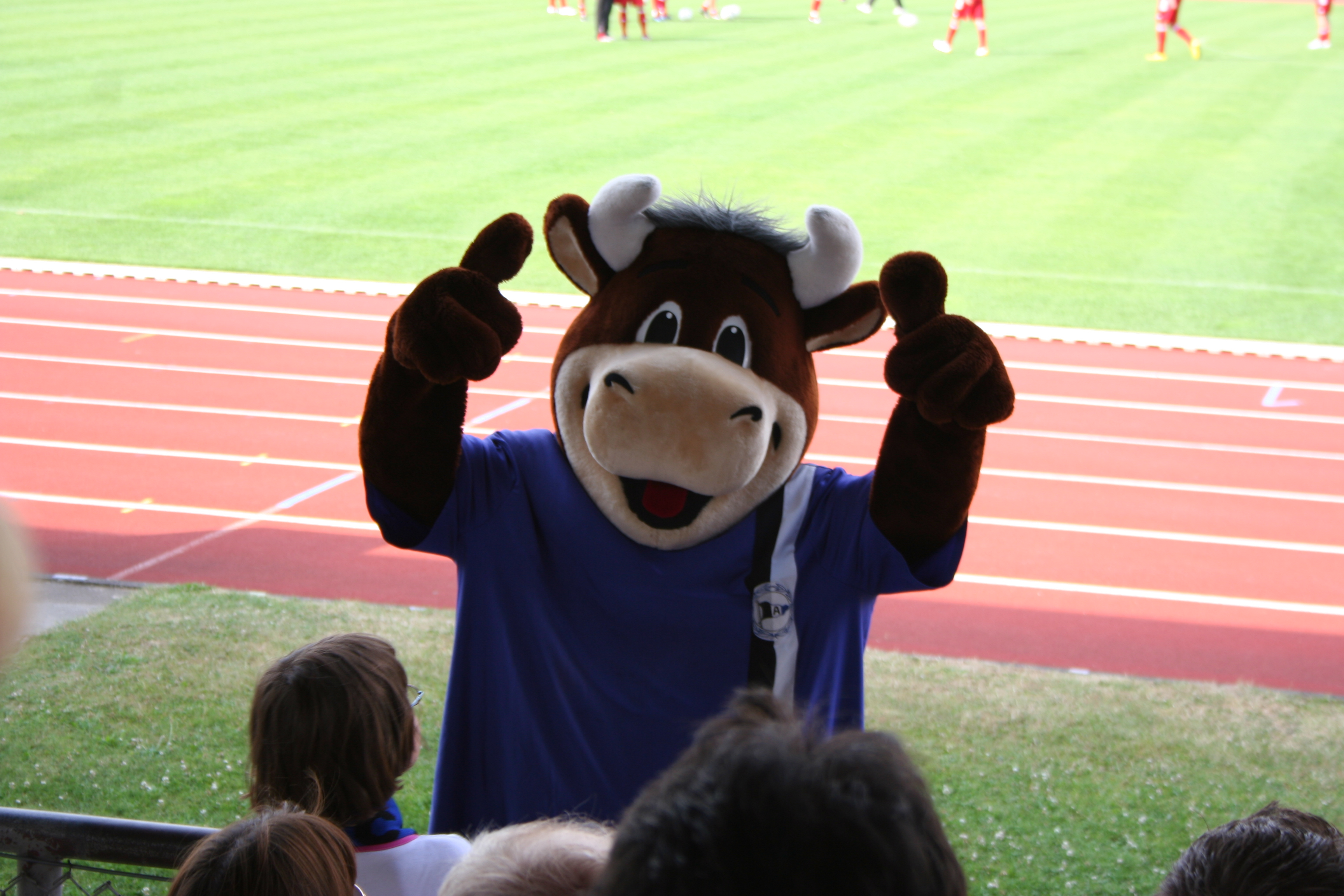 Lohmann, the mascot of the Arminis (Kids fansection of Arminia Bielefeld)